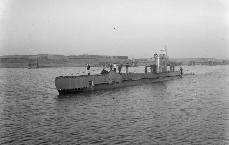 Polish submarine DZIK, originally British U class submarine P-52, underway in coastal waters.